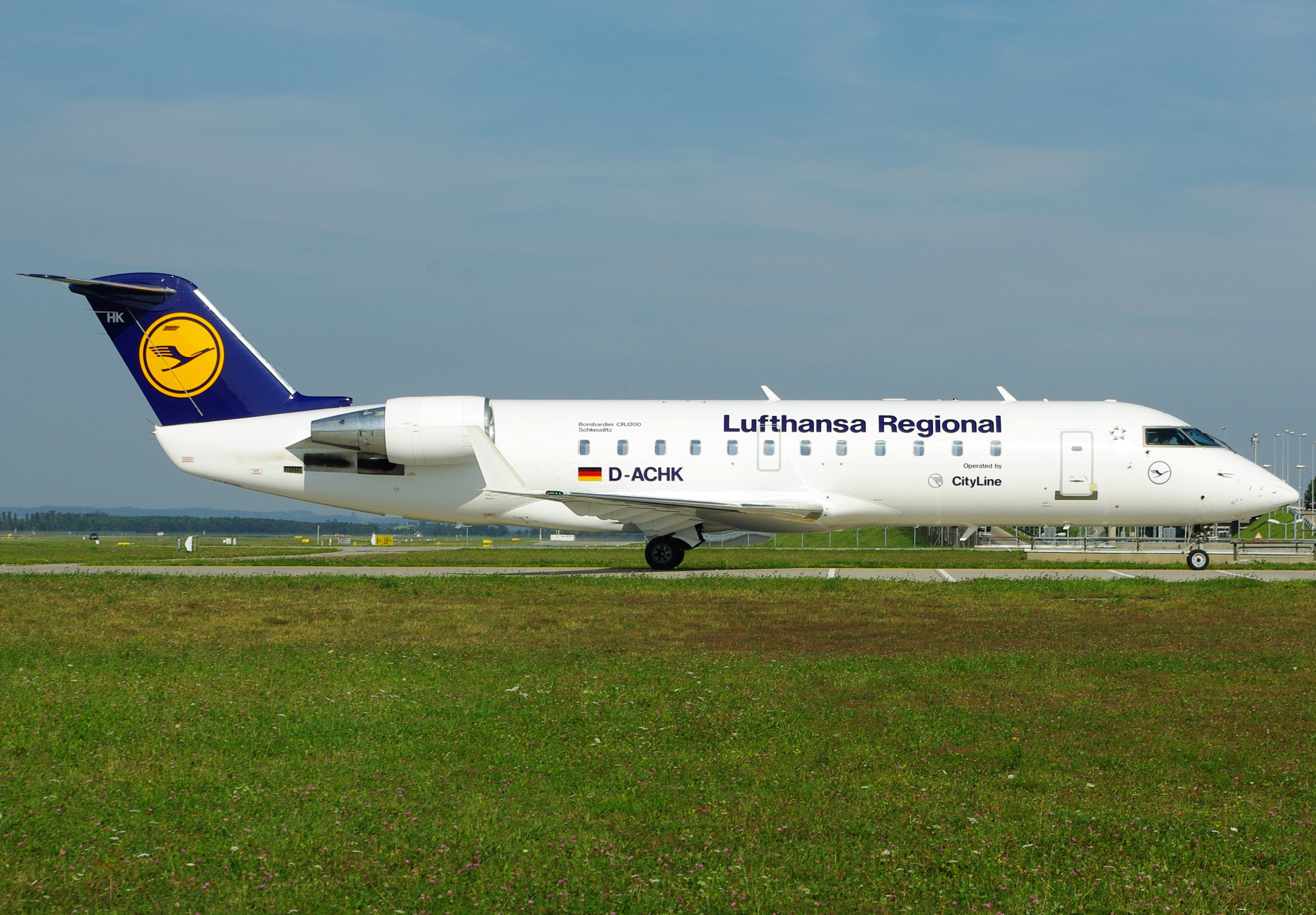 Lufthansa CityLine Canadair CL-600-2B19 Regional Jet CRJ-200LR (D-ACHK) at MUC.